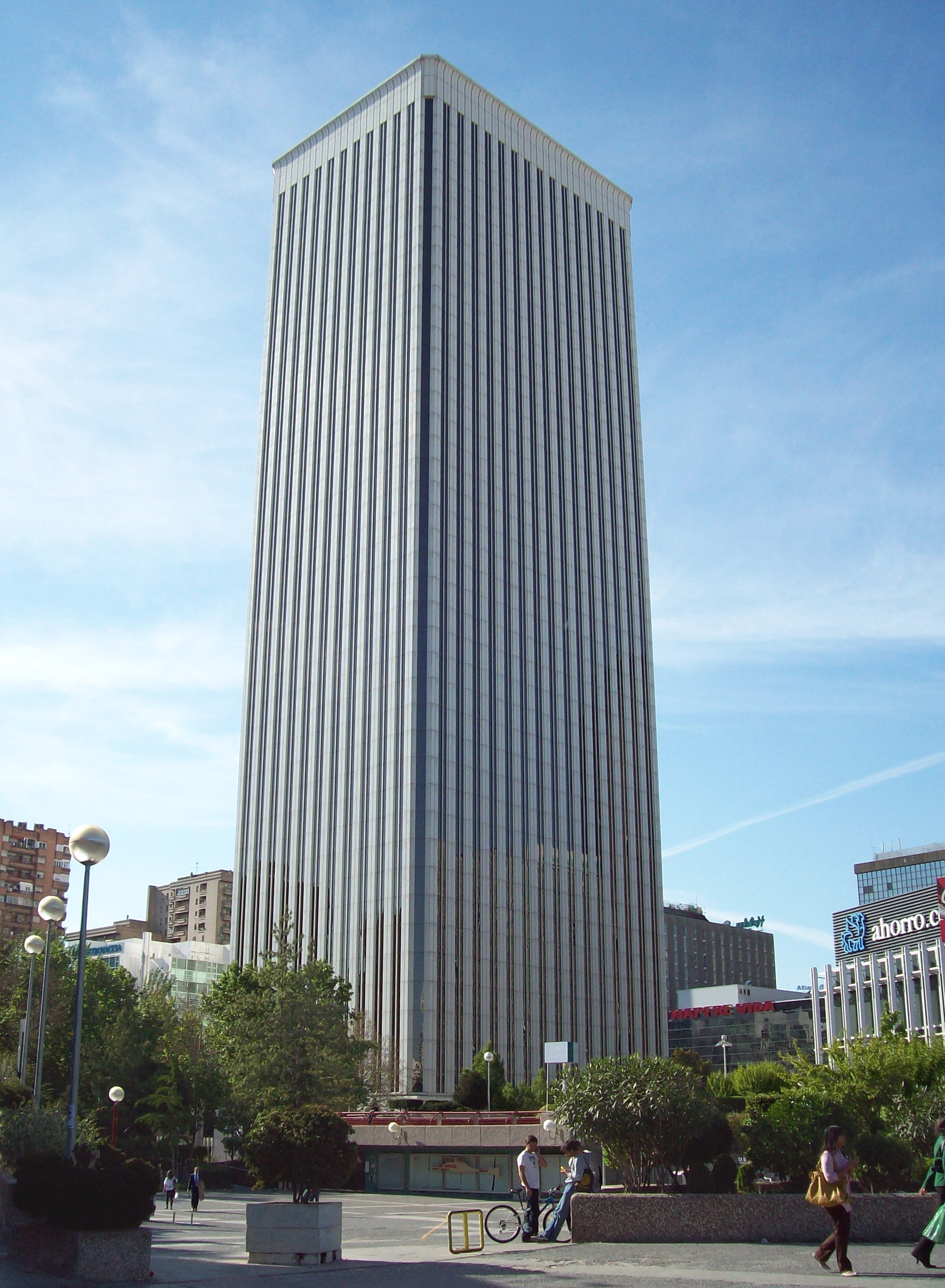 View, from the south-east angle, of Torre Picasso in Madrid (Spain).